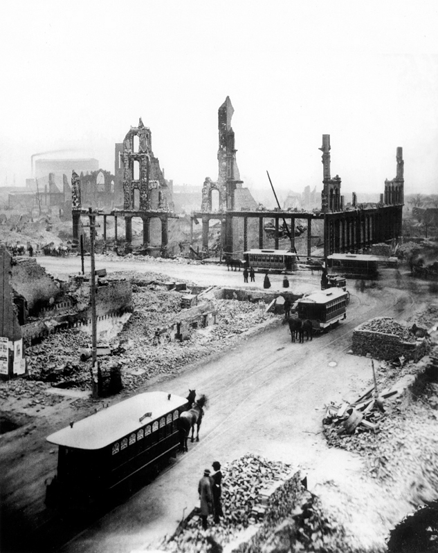 Chicago in ruins after the The Great Chicago Fire of 1871.